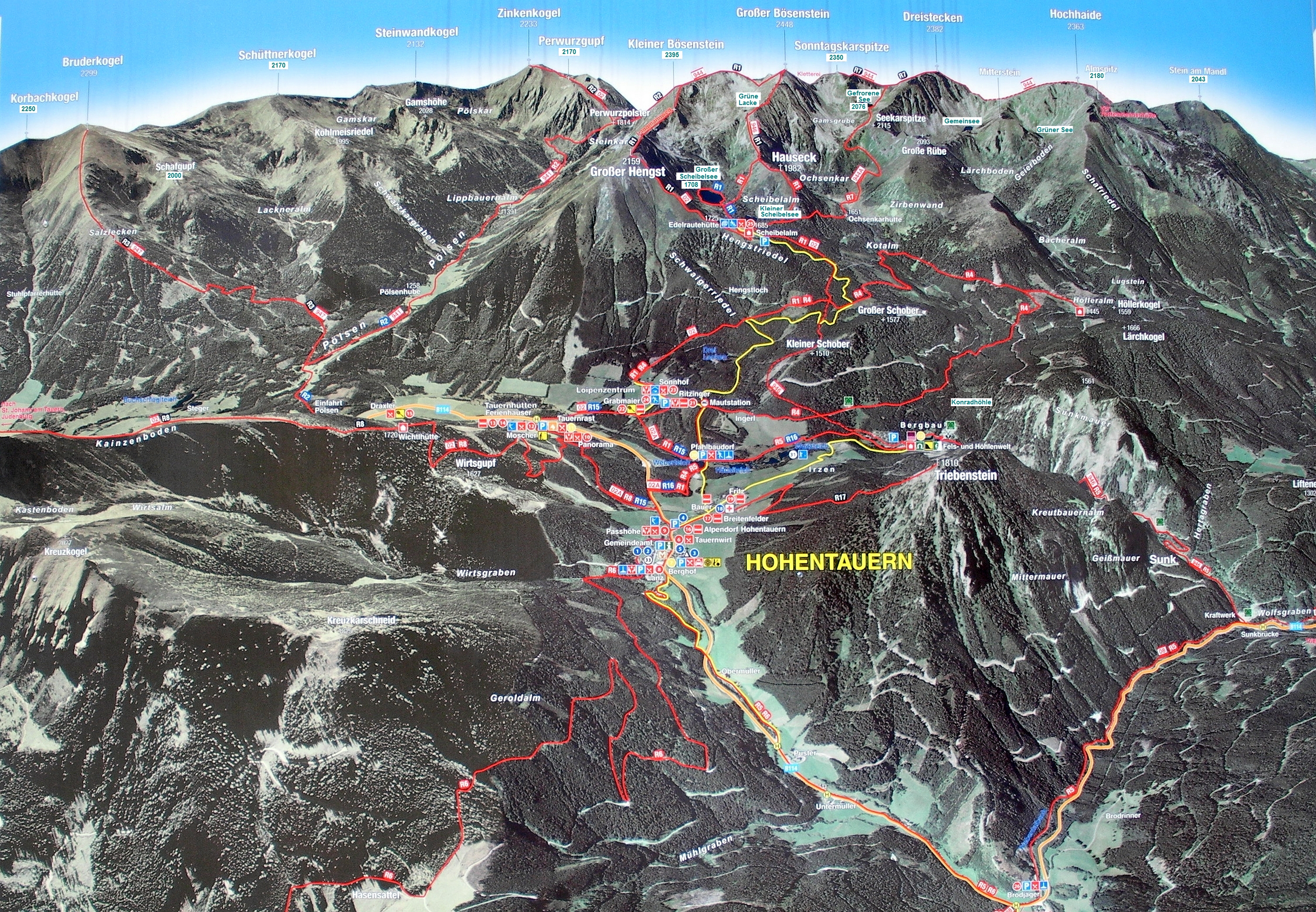 Hohentauern Panoramic board, from Korbachkogel to Stein am Mandl.